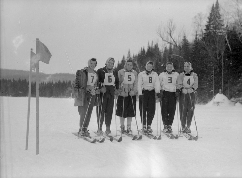 Of skiers in a race slalom skis background Cochand chalet in Sainte-Marguerite-du-Lac-Masson in the Laurentians. They wear numbered bibs.